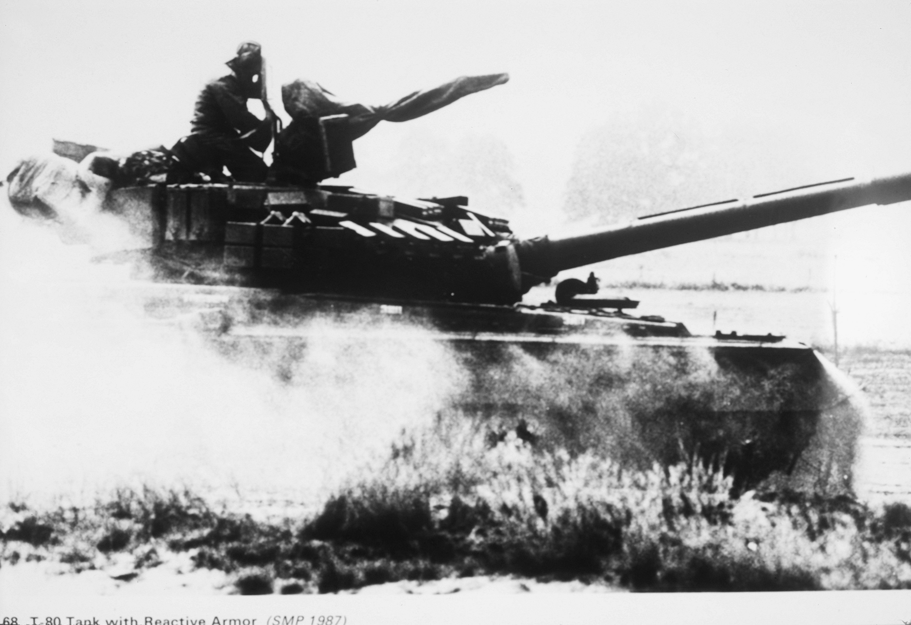 A Soviet T-80 tank with reactive armor.